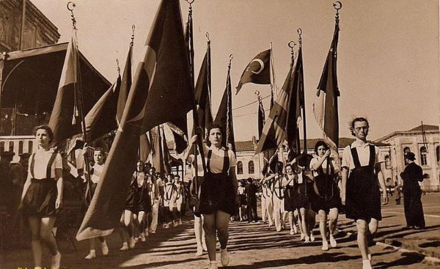 Festival of Youth and Sports, 1939, TurkeyTürkçe: Gençlik ve Spor Bayramı, 1939, Türkiye